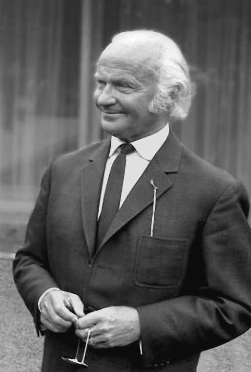 Barthel, Waldfried (1913-1979), German film entrepreneur and diplomat.